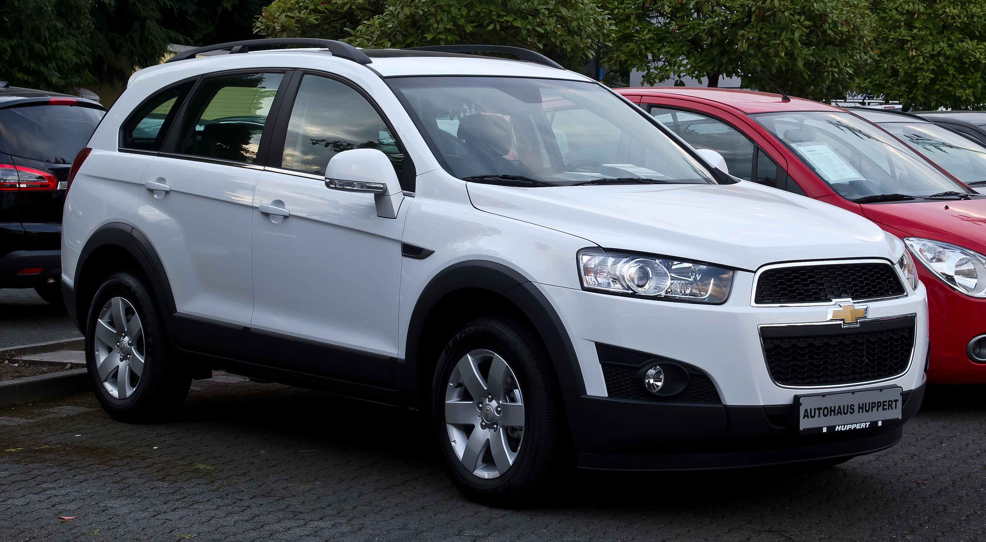 Chevrolet Captiva LT 2.2 D 2WD Travel Edition (Facelift)